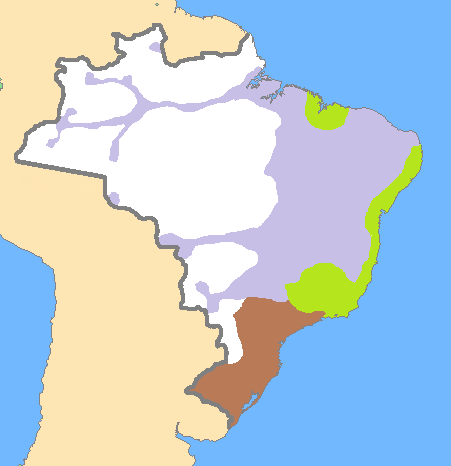 Map of the Empire of Brazil (1822-1889) with aproximate human presence and boundaries of each ethnic groups and the area where each is majority. In light purple: caboclos. In light green: mulattoes. In light brown: whites. In white: uninhabited. For the distribution of people throughout the national territory, an 1889 map showing towns was used in comparison with a late 18th century map in Fausto, Boris. História do Brasil. 13 ed. São Paulo: Editora da Universidade de São Paulo, 2010 ISBN 978-85-314-0240-1